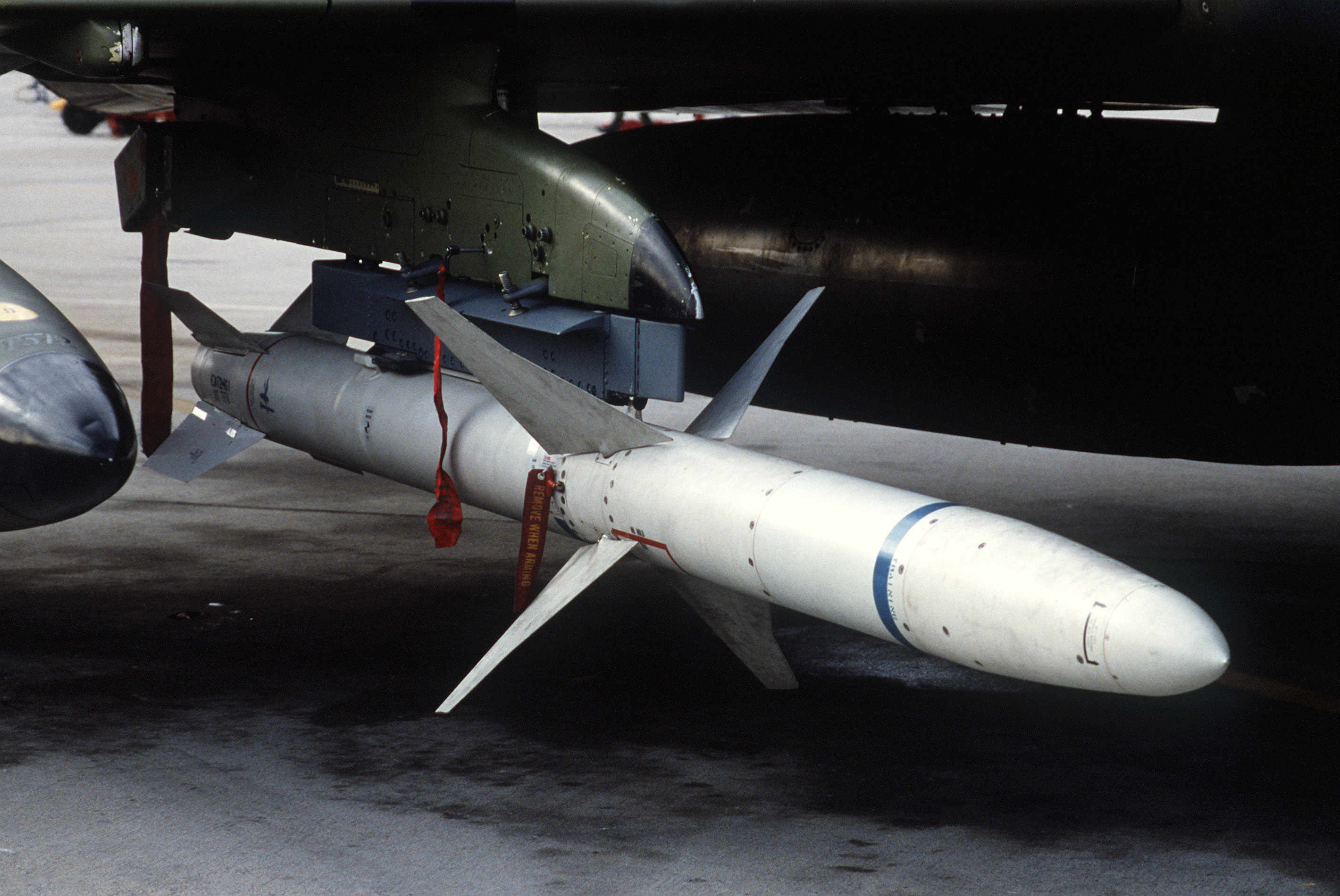 A view of an AGM-88 HARM high-speed anti-radiation missile mounted beneath the wing of a 37th Tactical Fighter Wing F-4G Phantom II "Wild Weasel" aircraft. Location: GEORGE AIR FORCE BASE, CALIFORNIA (CA) UNITED STATES OF AMERICA (USA)